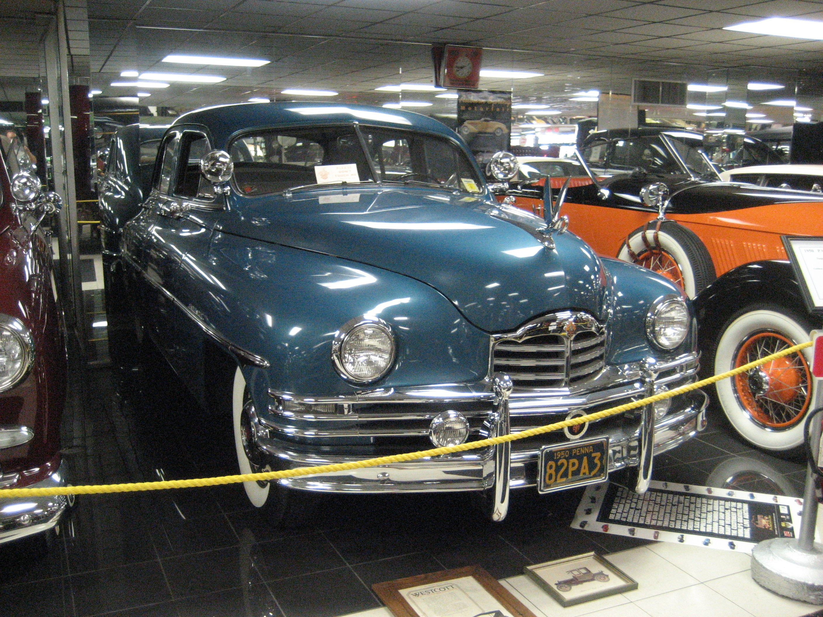 1950 Packard Super Eight on display at Tallahassee Automobile Museum